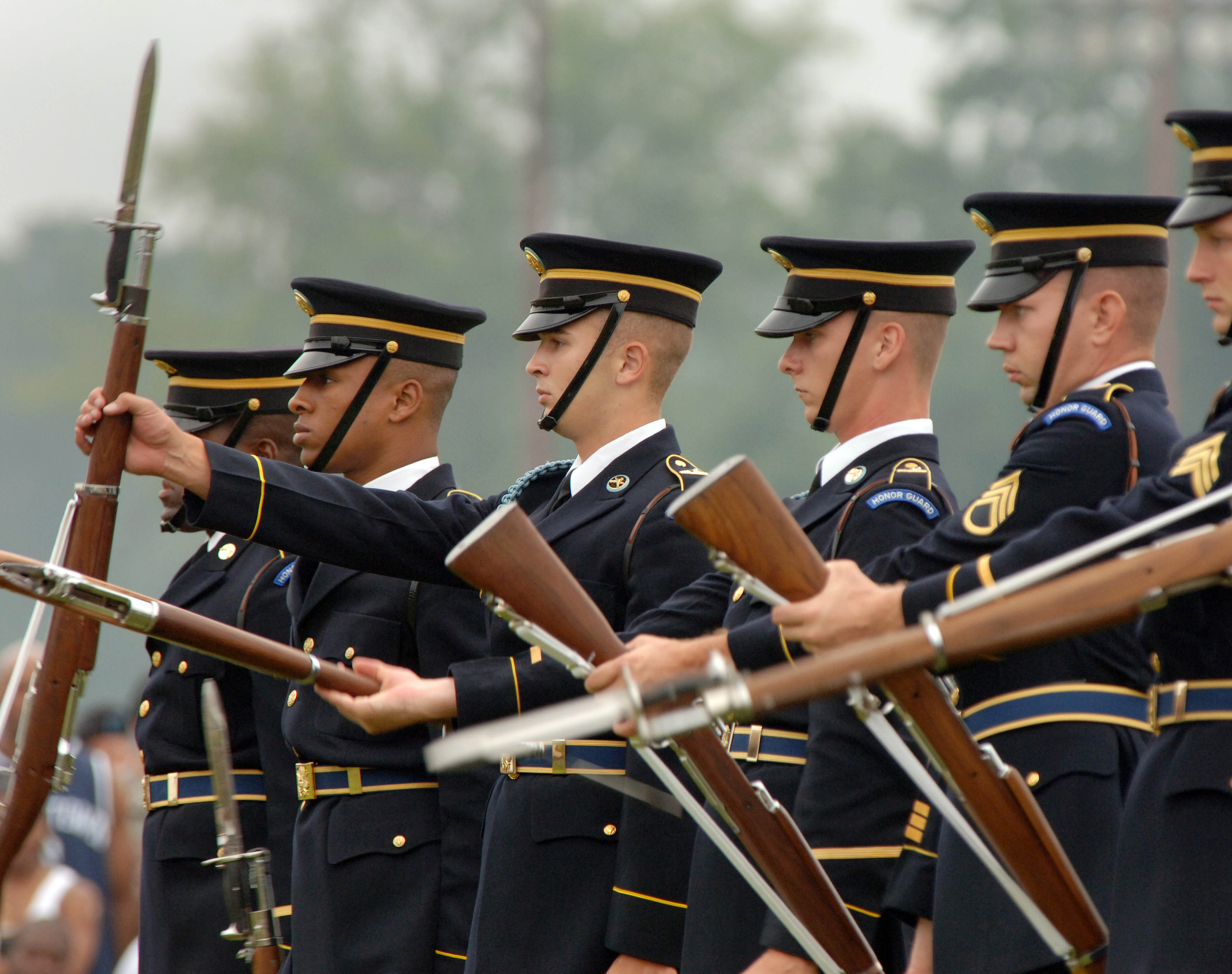 The 3rd U.S. Infantry’s U.S. Army Drill Team executes precision drill movements during a festival at Fort Eustis, Va.